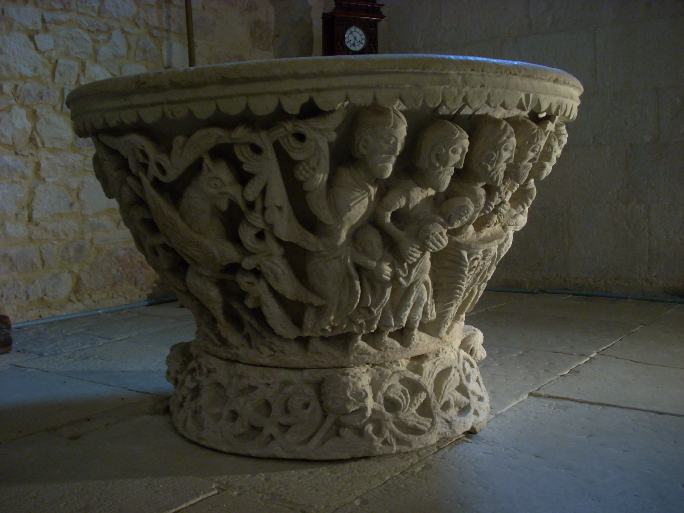 Pila bautismal románica de Colmenares